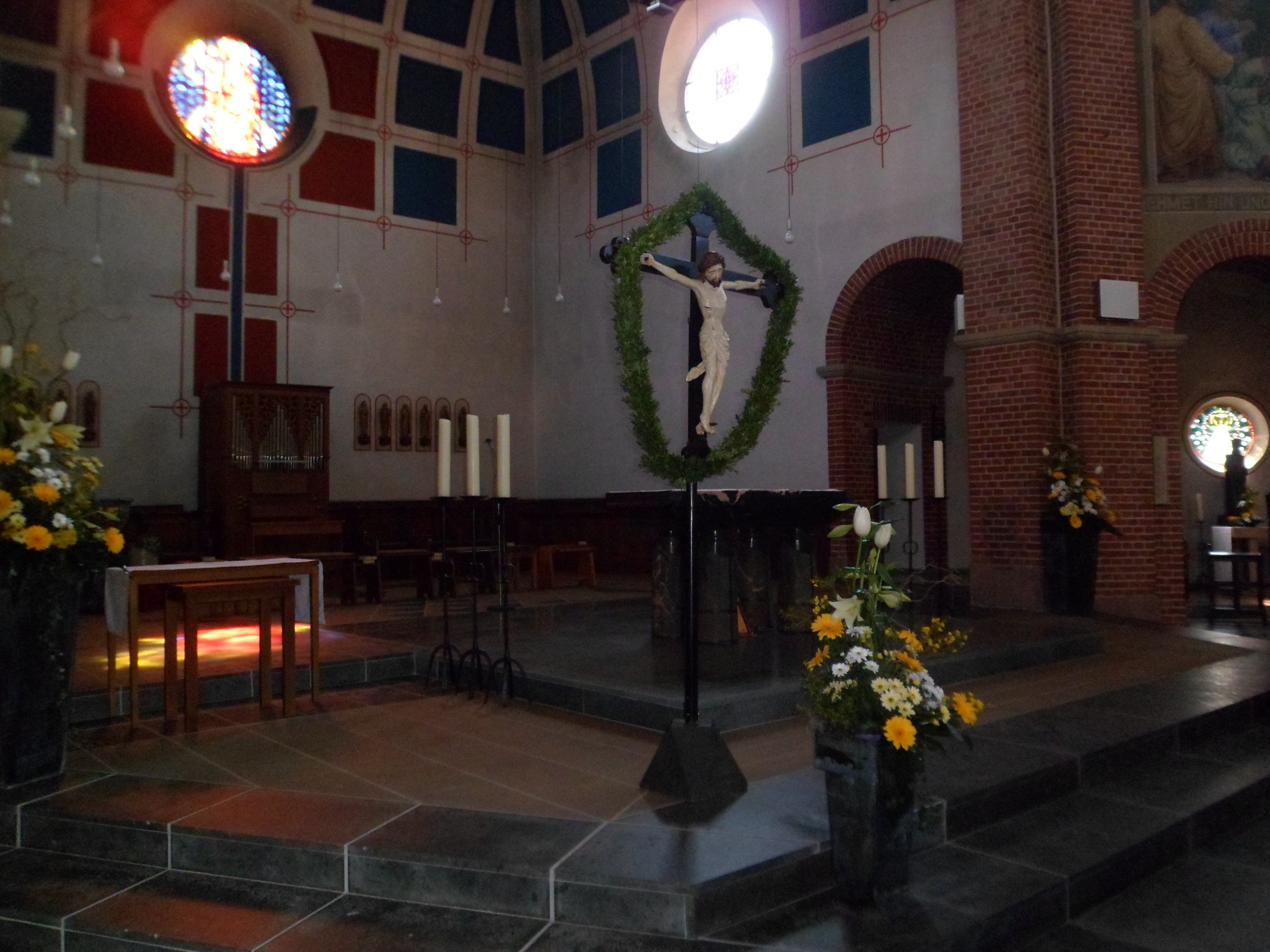 Nordhorn, St Augustinus